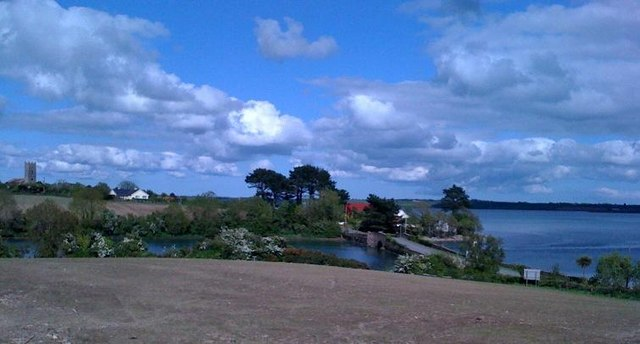 Saltmills bridge. Looking over at Tintern parish, across Saltmills bridge (built 1817) from near Clegg's pub in Saltmills.